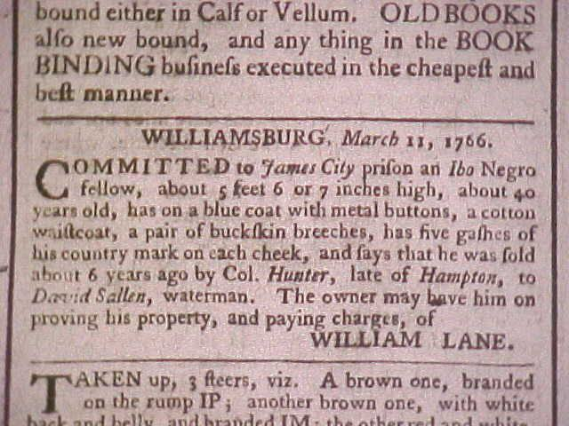 A slave notice from Williamsburg, Virginia displaying the ethnicity (Igbo) of a runaway slave.